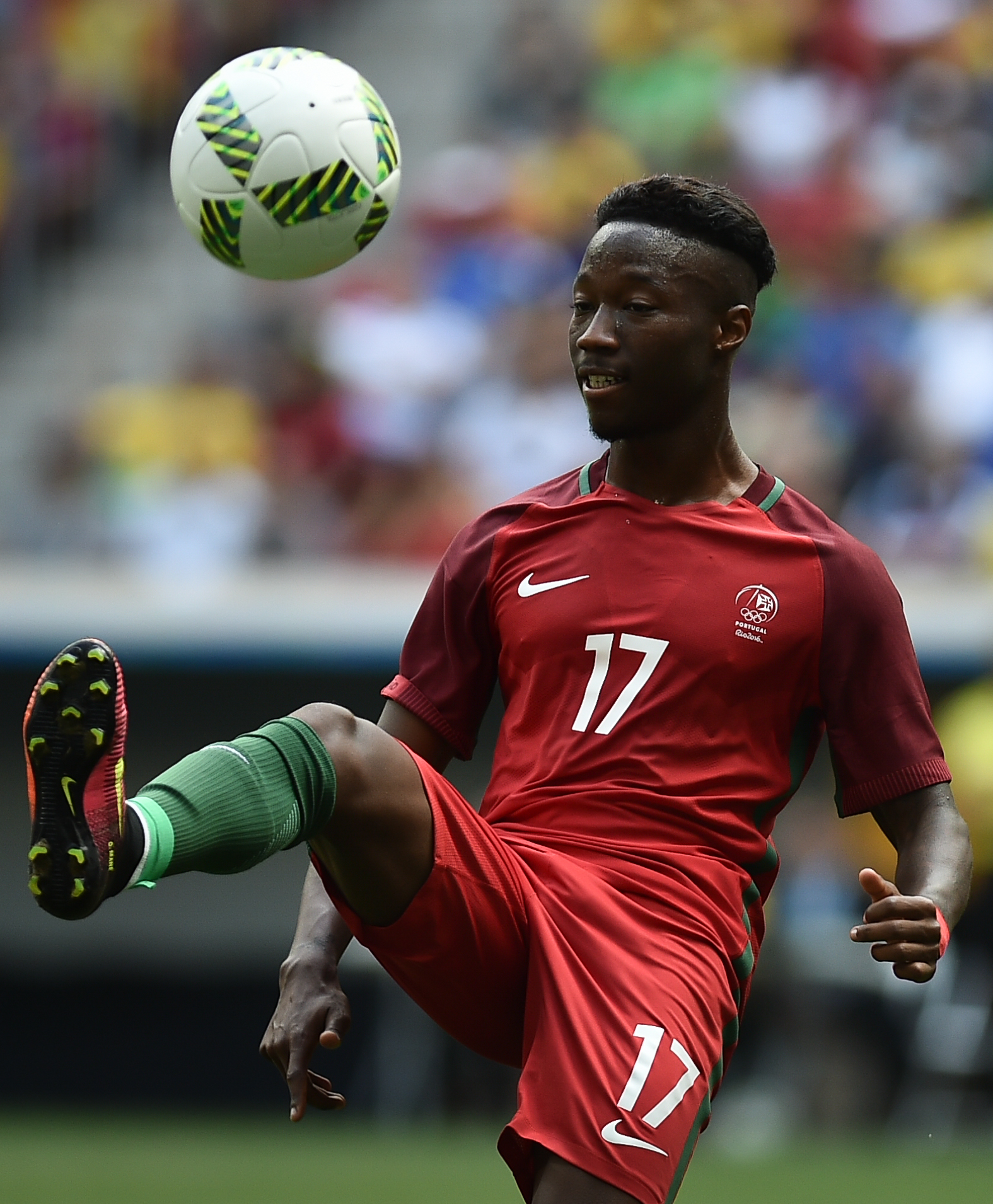 Estádio Nacional de Brasília Mané Garrincha, Brasília, DF, Brasil, 13/8/2016. Portigal e Alemanha jogam neste sábado (12), no Estádio Mané Garrincha, pelas quartas de final do futebol masculino nas Olimpíadas 2016.